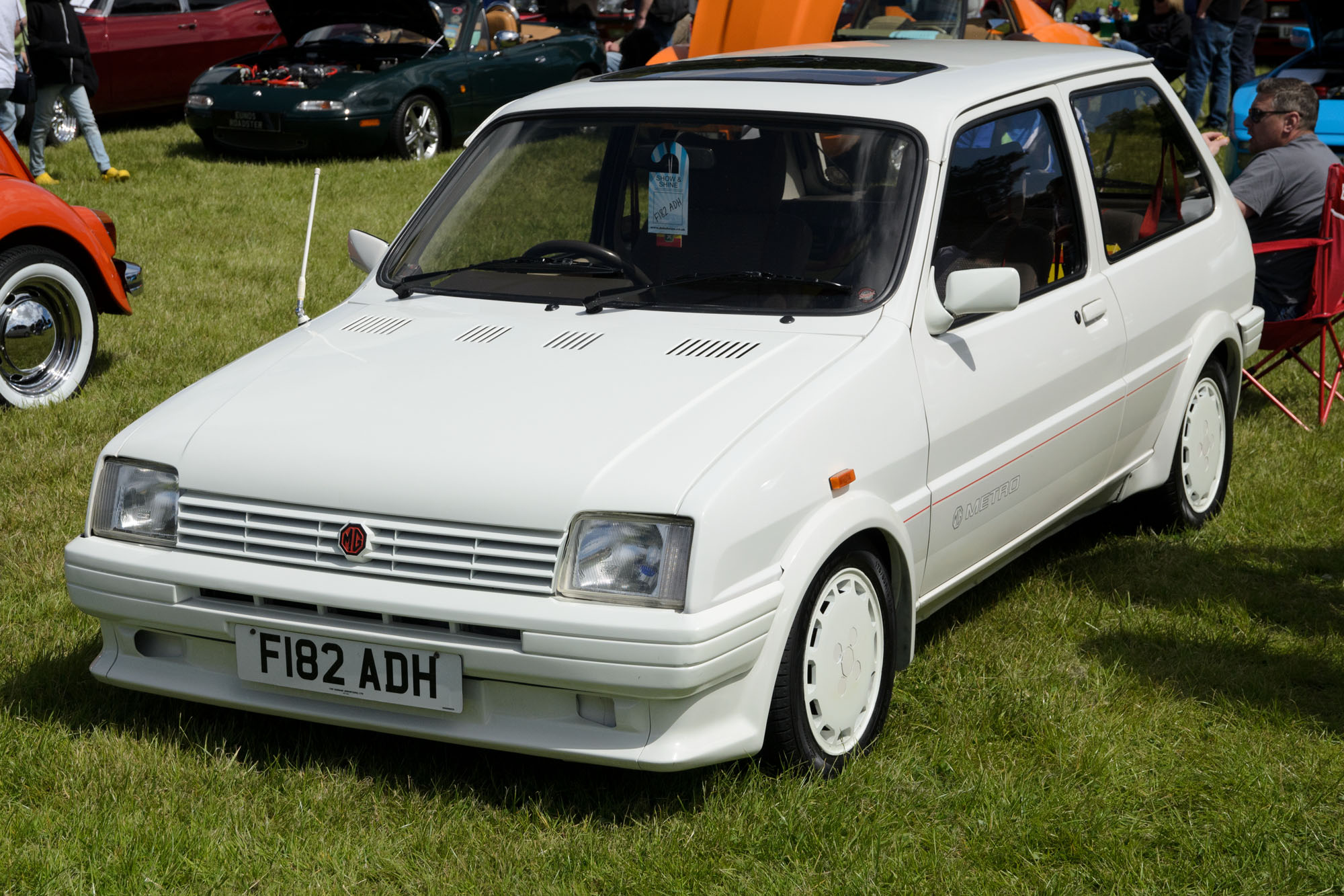 MG Metro Turbo All White edition - 1988 Weston Park Dubs Mania 07/06/2015